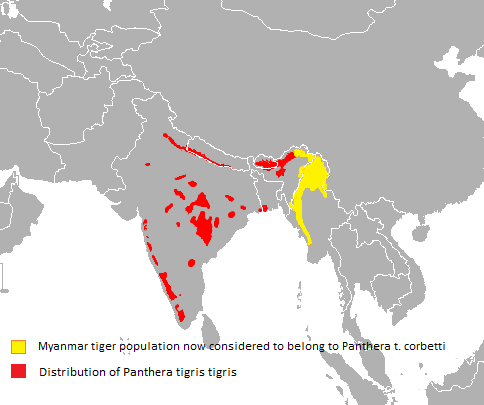 Distribution of Panthera tigris tigris is in red. Distribution of questionable population now considered to belong to Panthera tigris corbetti is in yellow. Includes national borders.